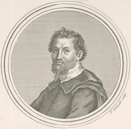 Italian composer Ruggiero Giovannelli (ca. 1560-1625) by James Caldwall (1739-1822). After an engraving in Andrea Adami's Osservazioni per ben regolare il coro dei cantori della Cappella pontificia. Catalogo de' nomi, cognomi, e patria de i cantori pontifici (Rome, 1711).